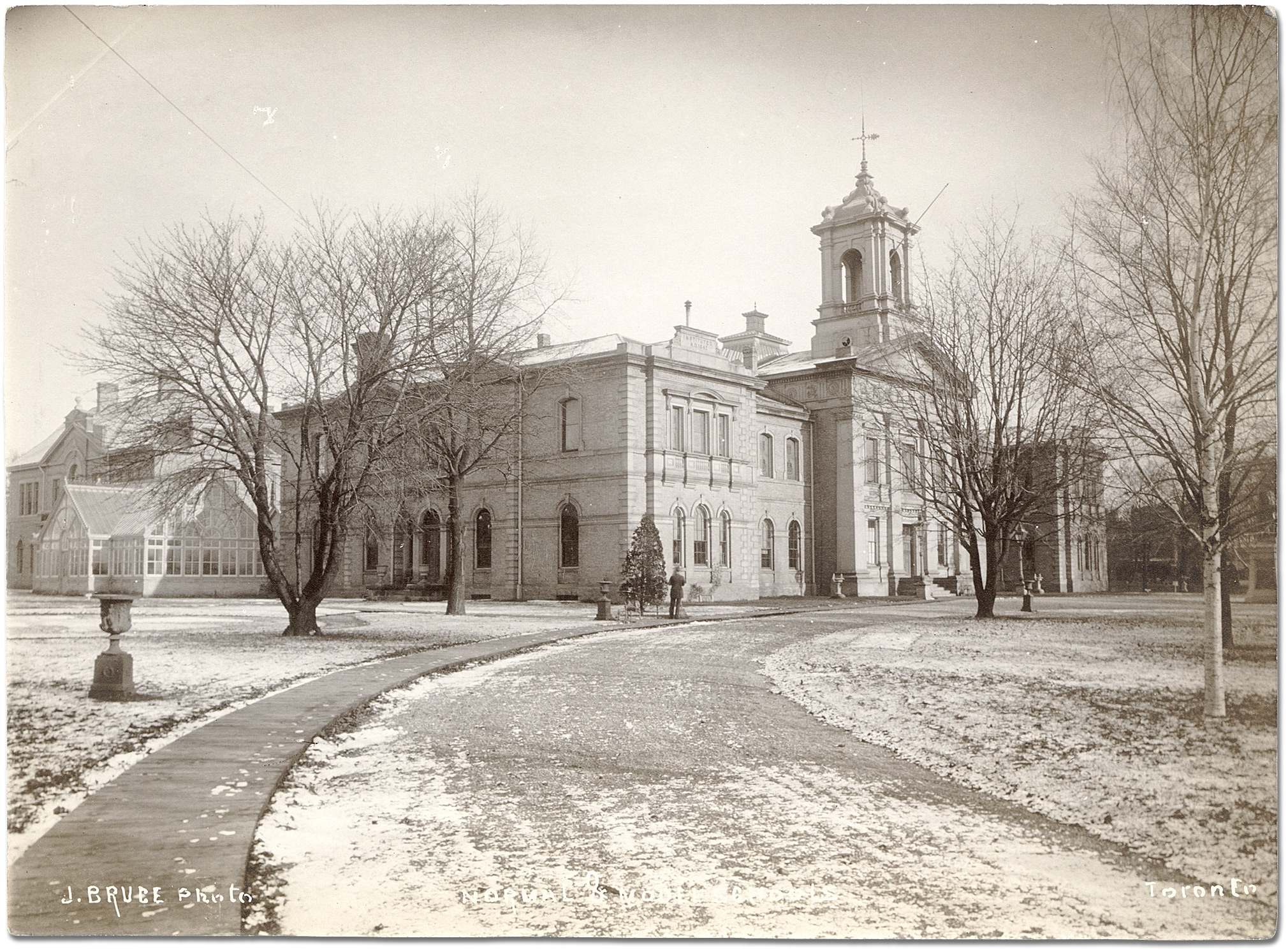 Education Department building and the Normal and Model Schools for Upper Canada, Toronto